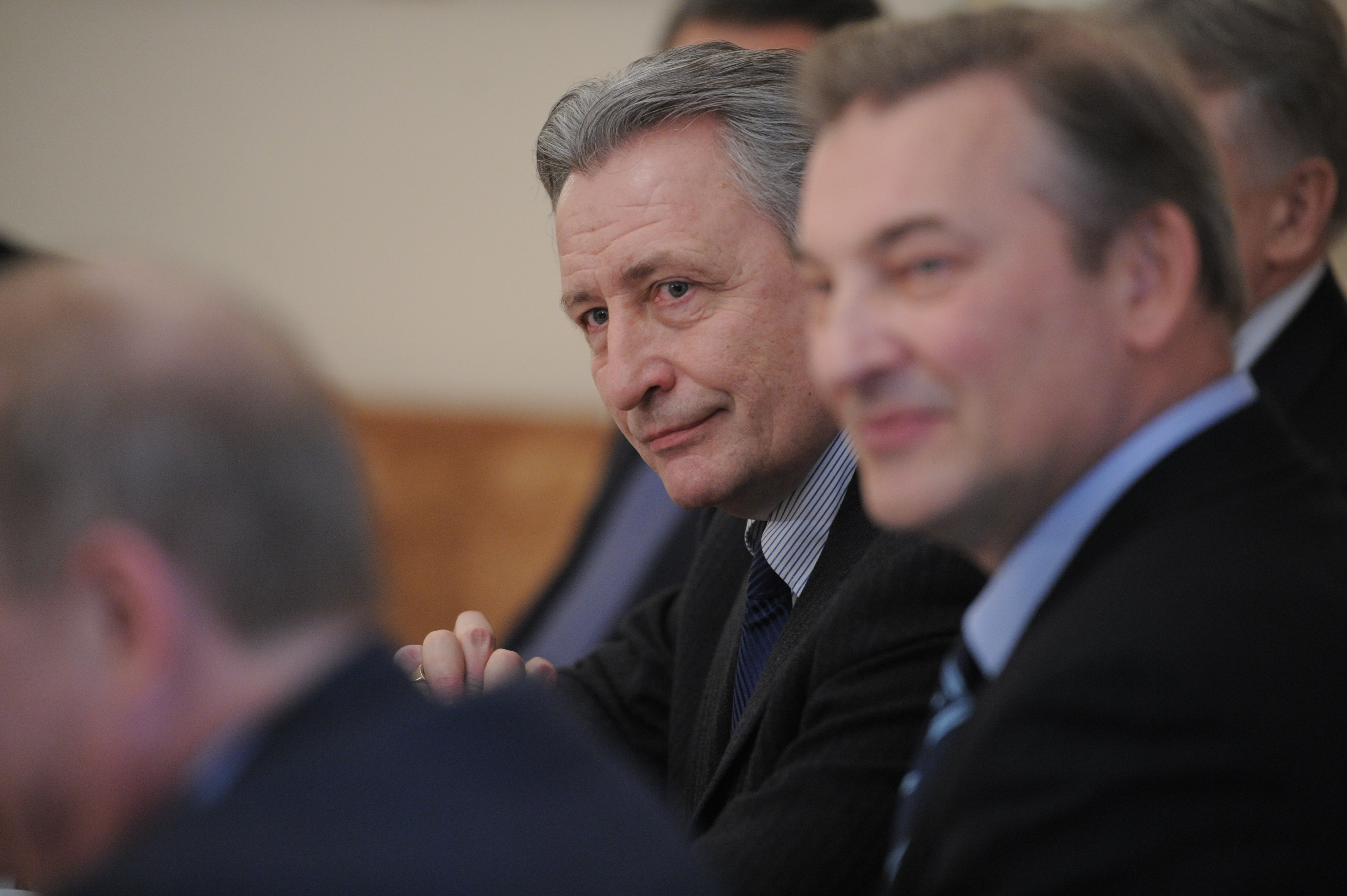 Soviet centre (ice hockey) Alexander Yakushev and Soviet goal-keeper Vladislav Tretyak